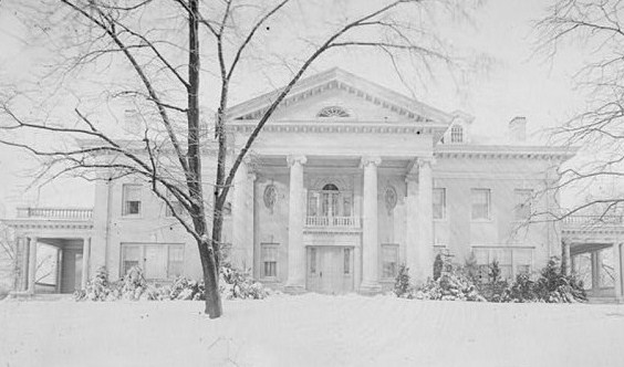 Hawthorn Hill (Oakwood, Ohio) (cropped)